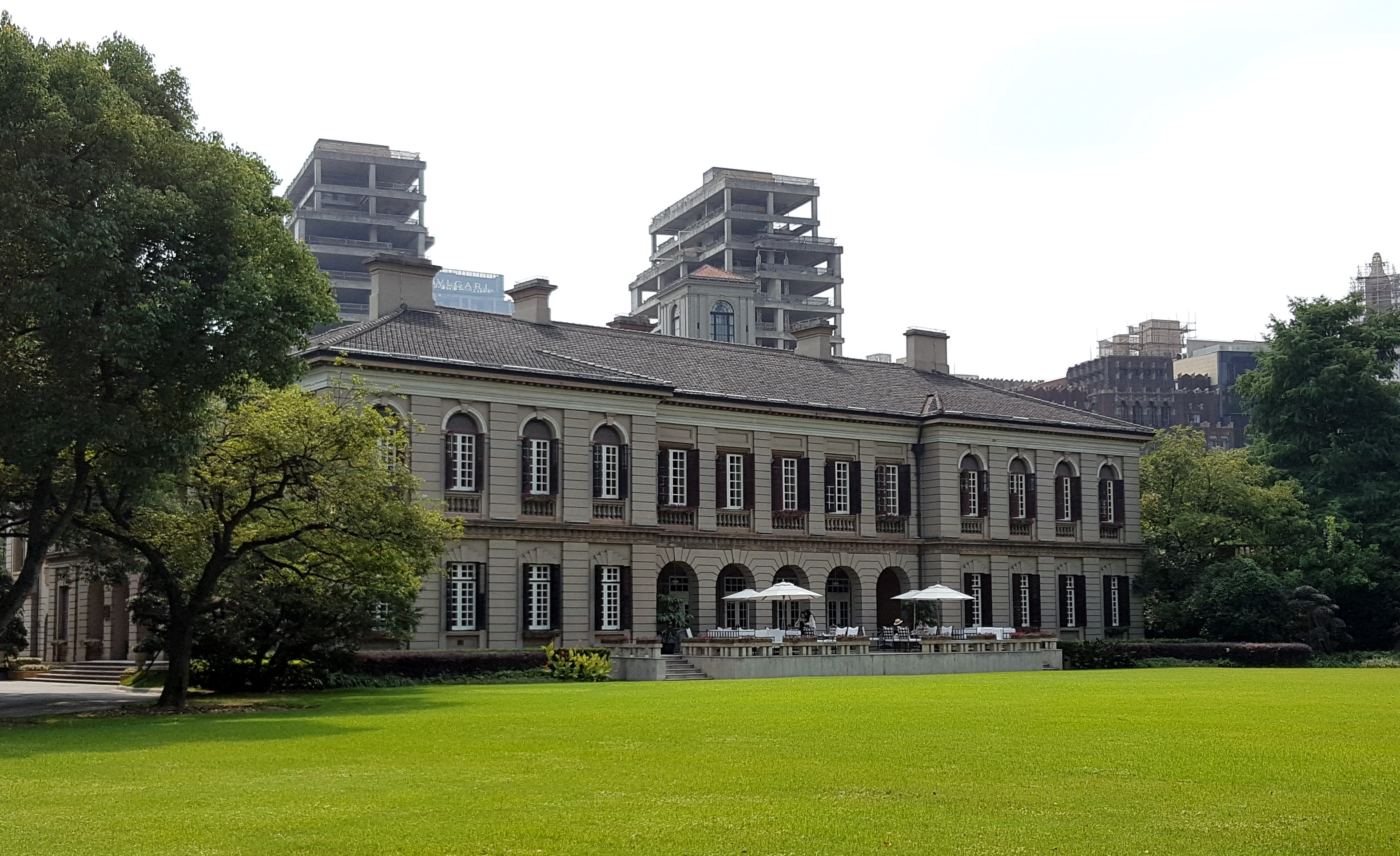 The former British Consulate General Building in Shanghai.